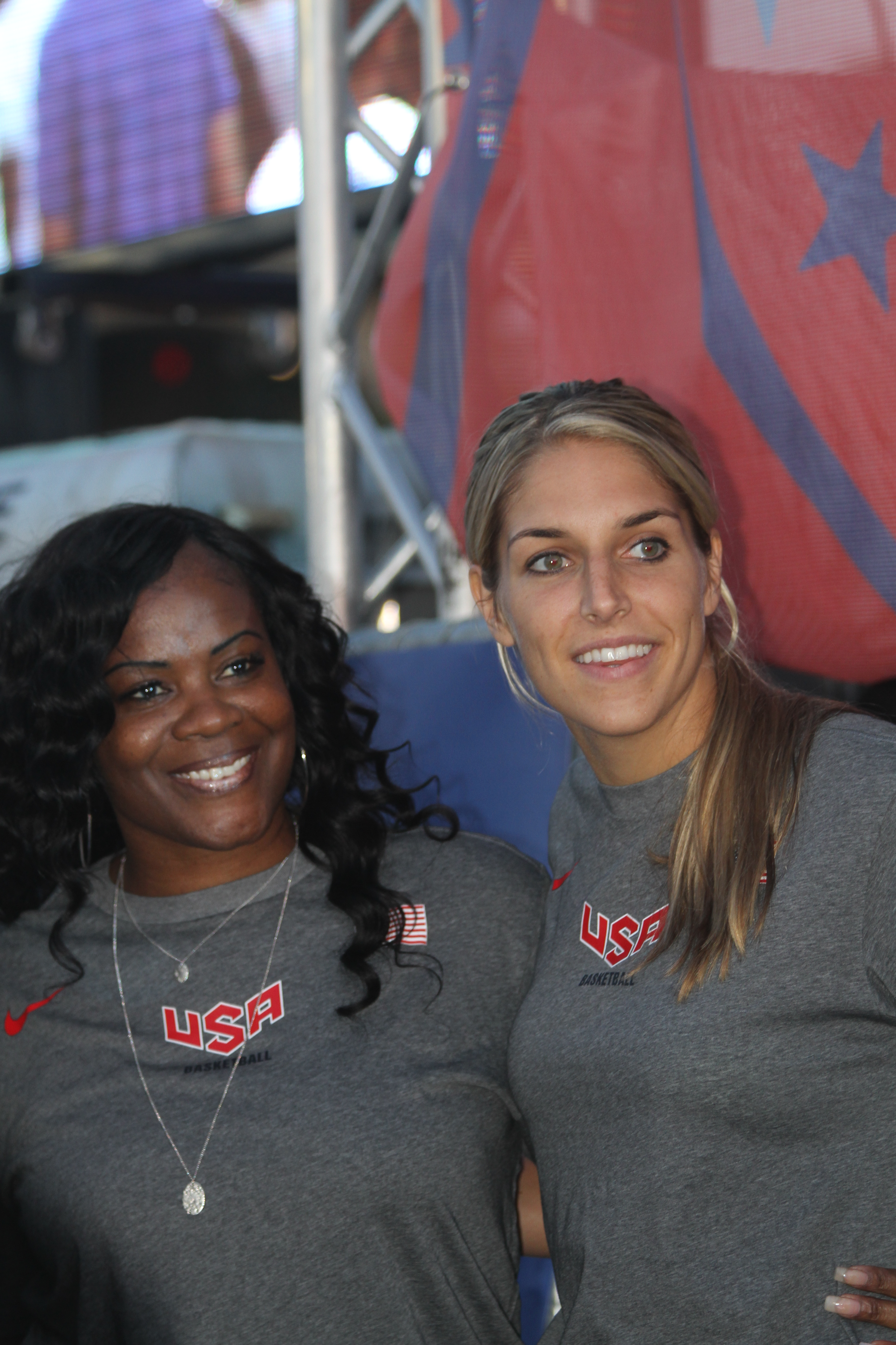 Cheryl Swoopes, Elena Delle Donne at the 2014 World Basketball Festival